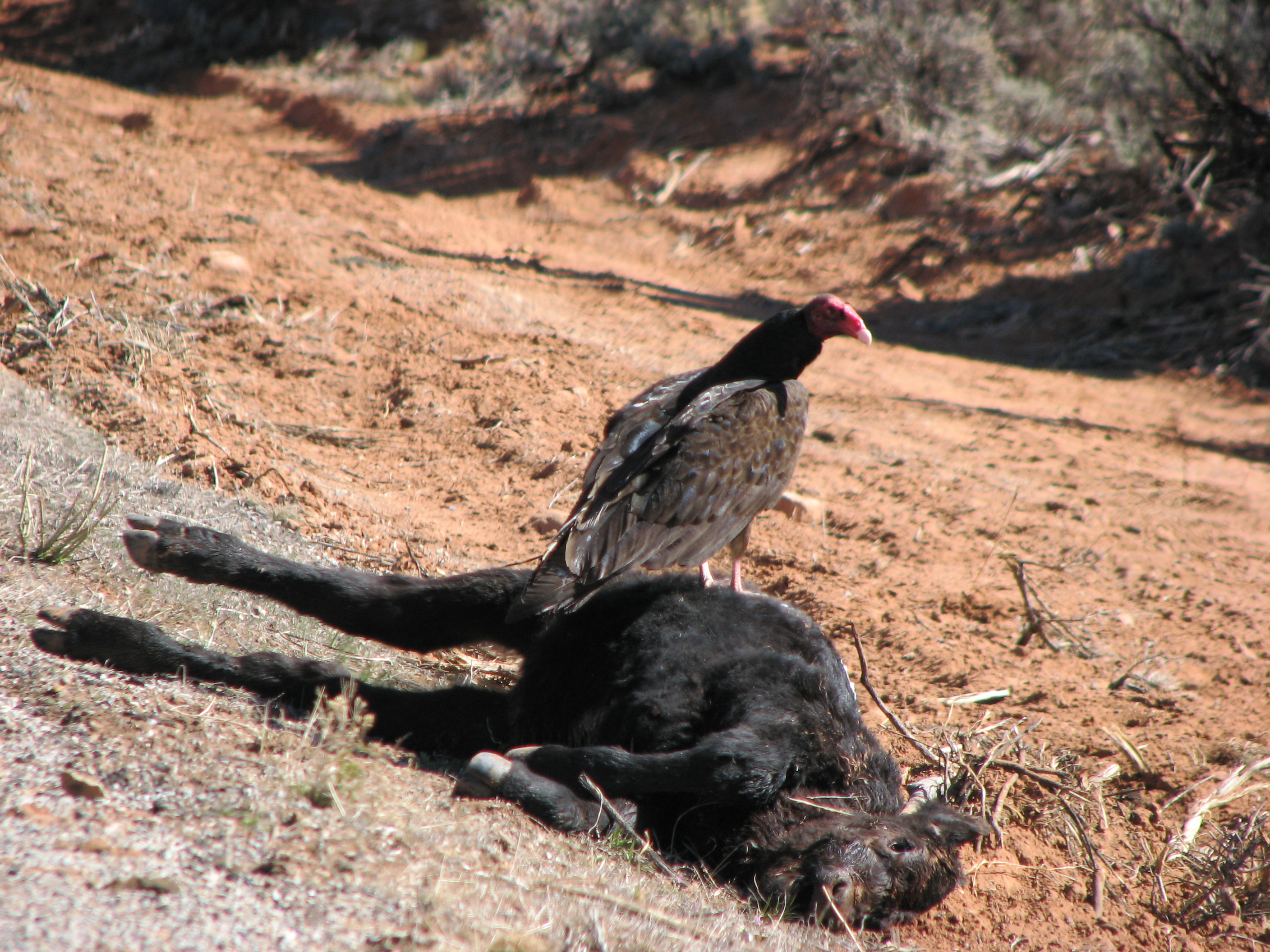 A Turkey Vulture